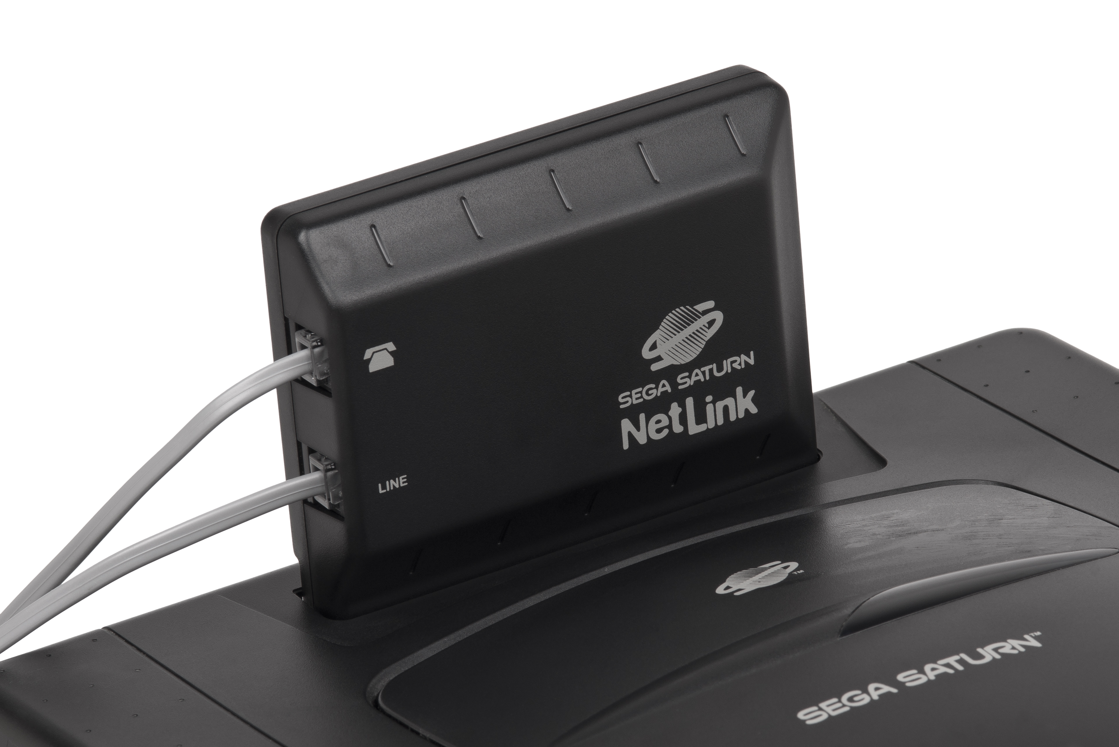 The Sega Saturn NetLink. A dial-up modem for web-browsing and playing games over the internet with your Sega Saturn.